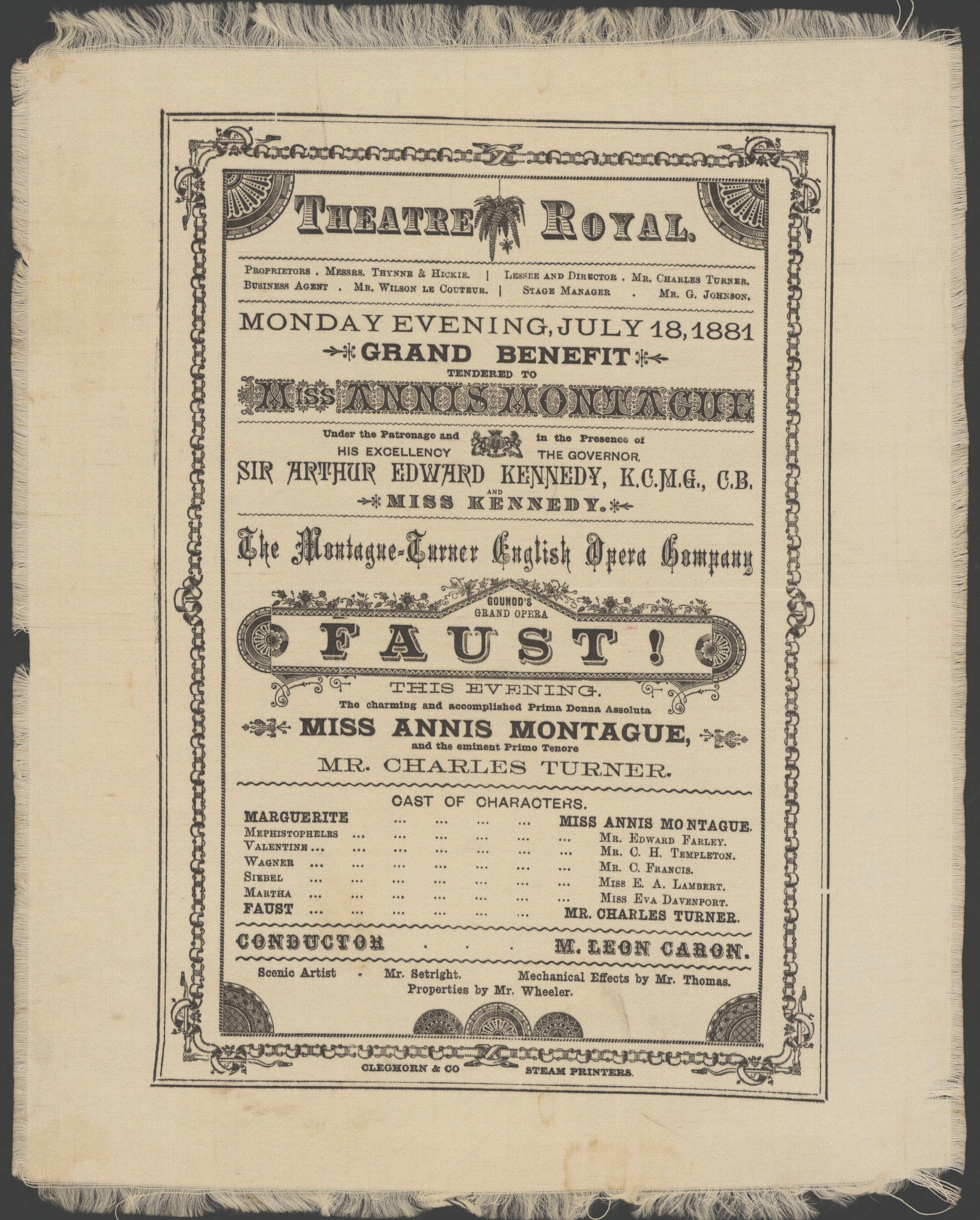 Advertisement for Theatre Royal (Brisbane), 1881. Monday evening, July 18, 1881, grand benefit tendered to Miss Annis Montague ... the Montague-Turner English Opera Company, Gounod's grand opera Faust!